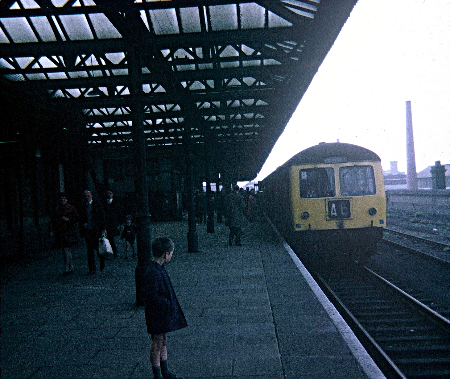 Taken on the final day ie 3rd May, 1969, of passenger train workings between Rugby (Central) Station and Nottingham (Arkwright Street) Station, a Diesel Multiple Unit train is seen at Leicester (Central) Station on the way North to Nottingham. Industrial units now occupy most of the former station area